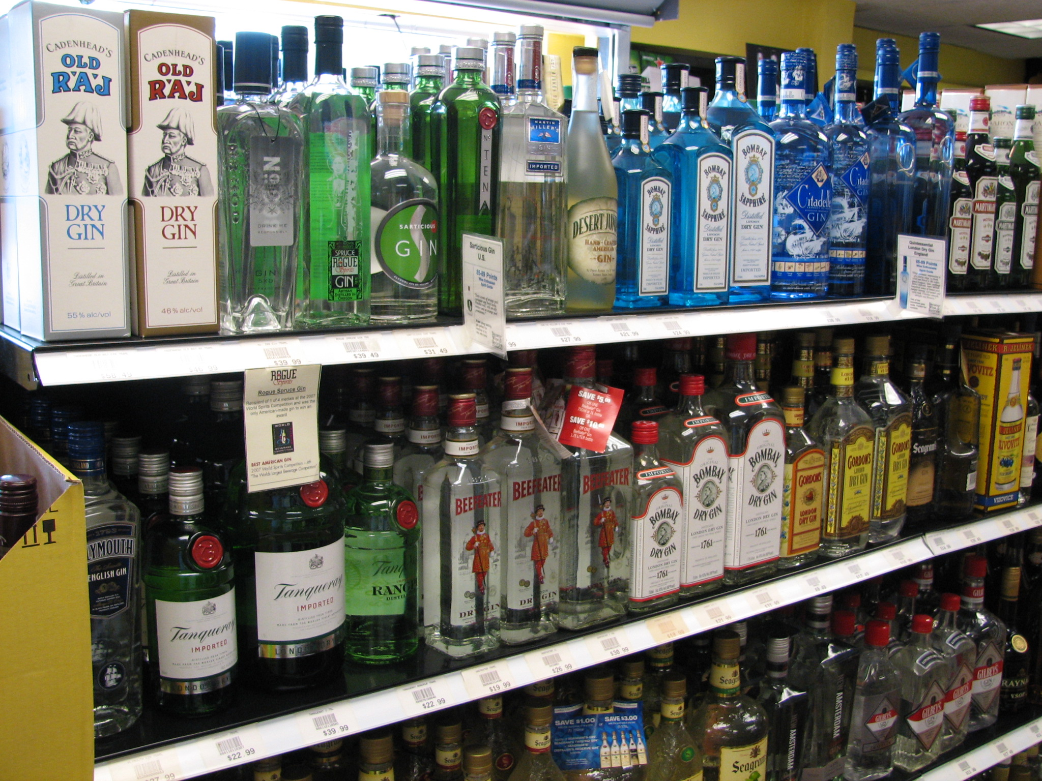 A selection of gins offered at a liquor store in Decatur, Georgia, United States